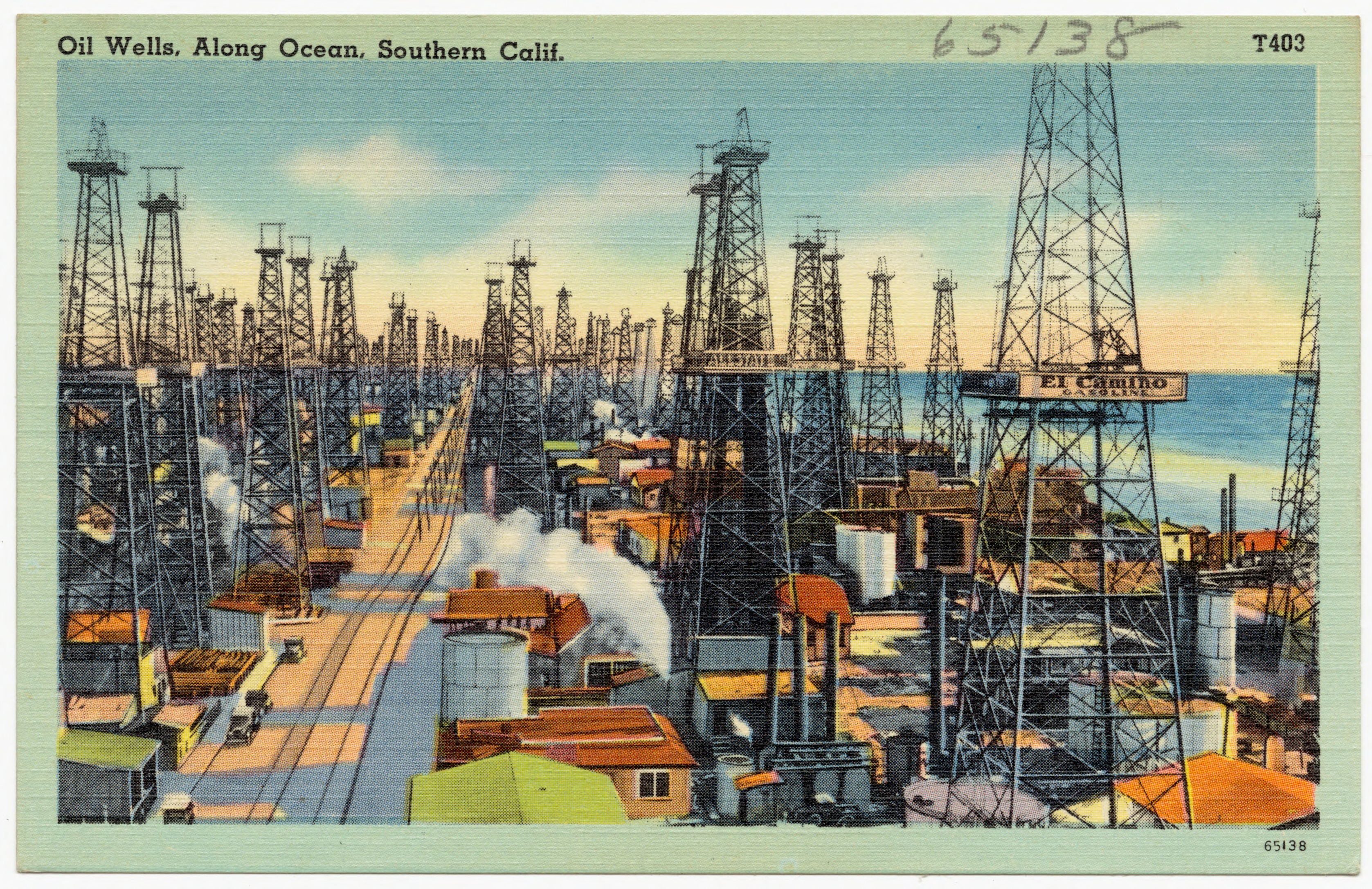 Title: Oil Wells, Along Ocean, Southern Calif. Places: California Notes: Title from item. Extent: 1 print (postcard) : linen texture, color ; 3 1/2 x 5 1/2 in. Accession #: 06_10_010240